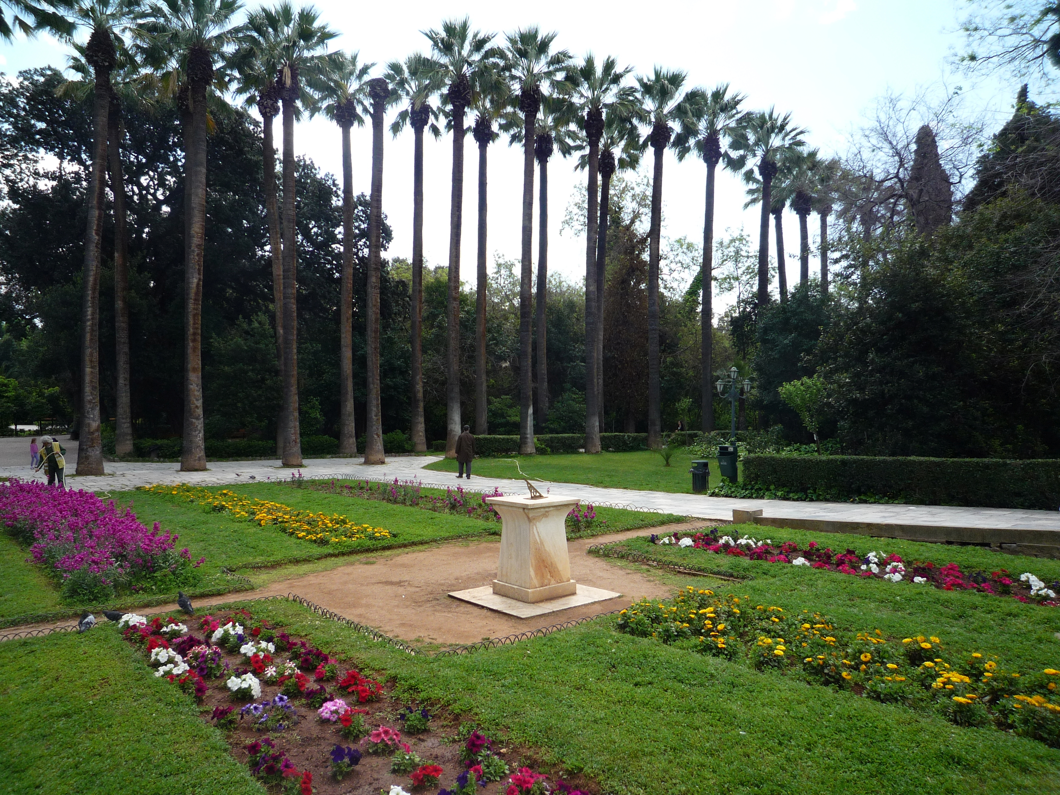 20140410 60 Athens National Gardens